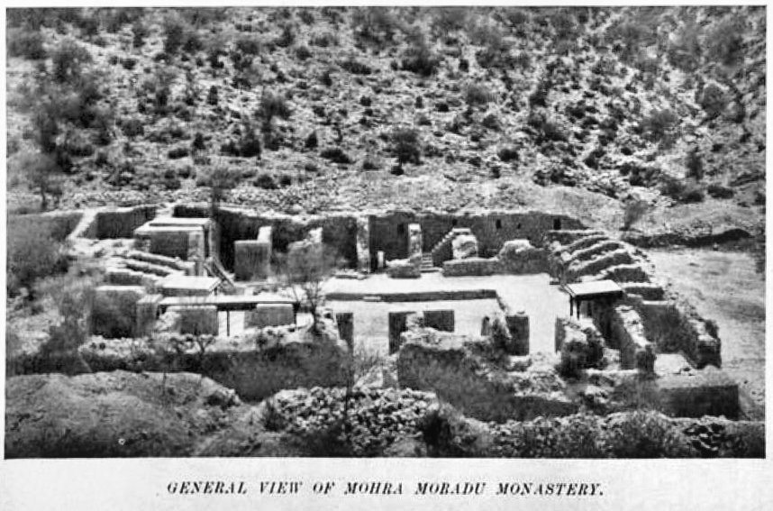 Mohra Moradu Monastery